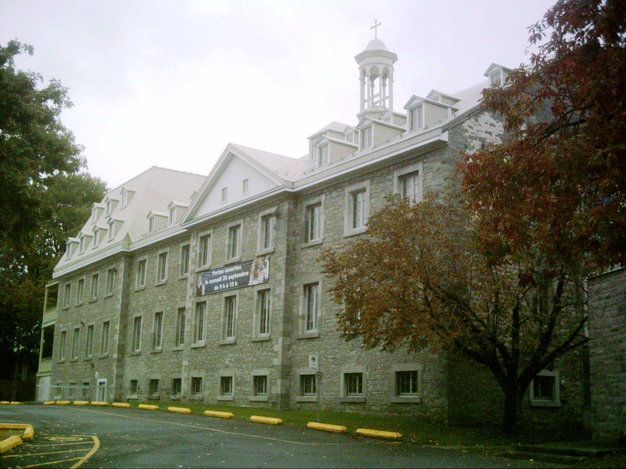 Building, 1700, boulevard Henri-Bourassa Est, Montréal